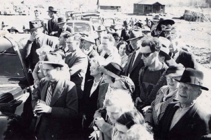 A crowd gathers for the re-opening of the South Fork Bridge, Gold Bridge B.C. in 1941. One man appears oddly out of place